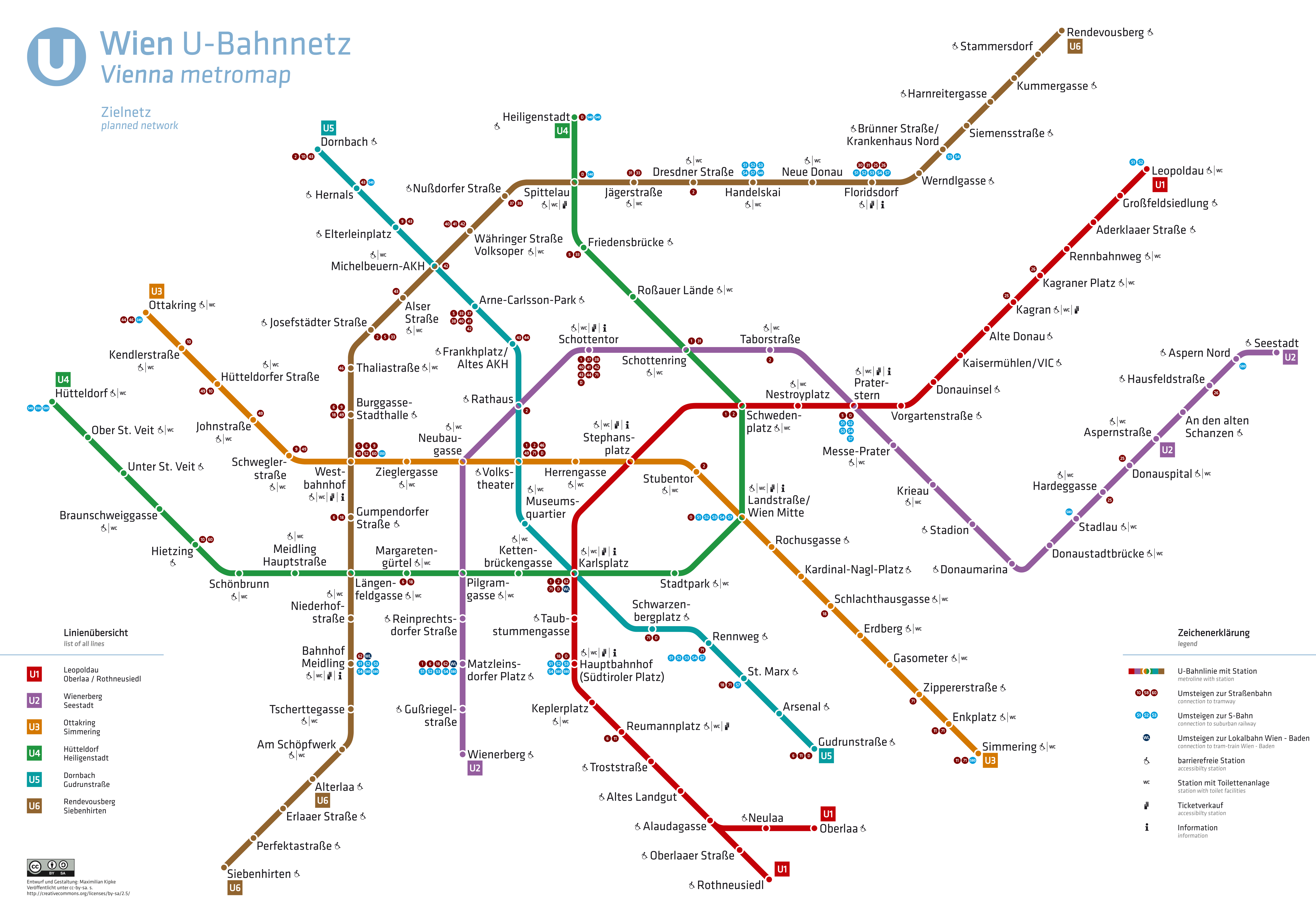 planned metronetwork in Vienna